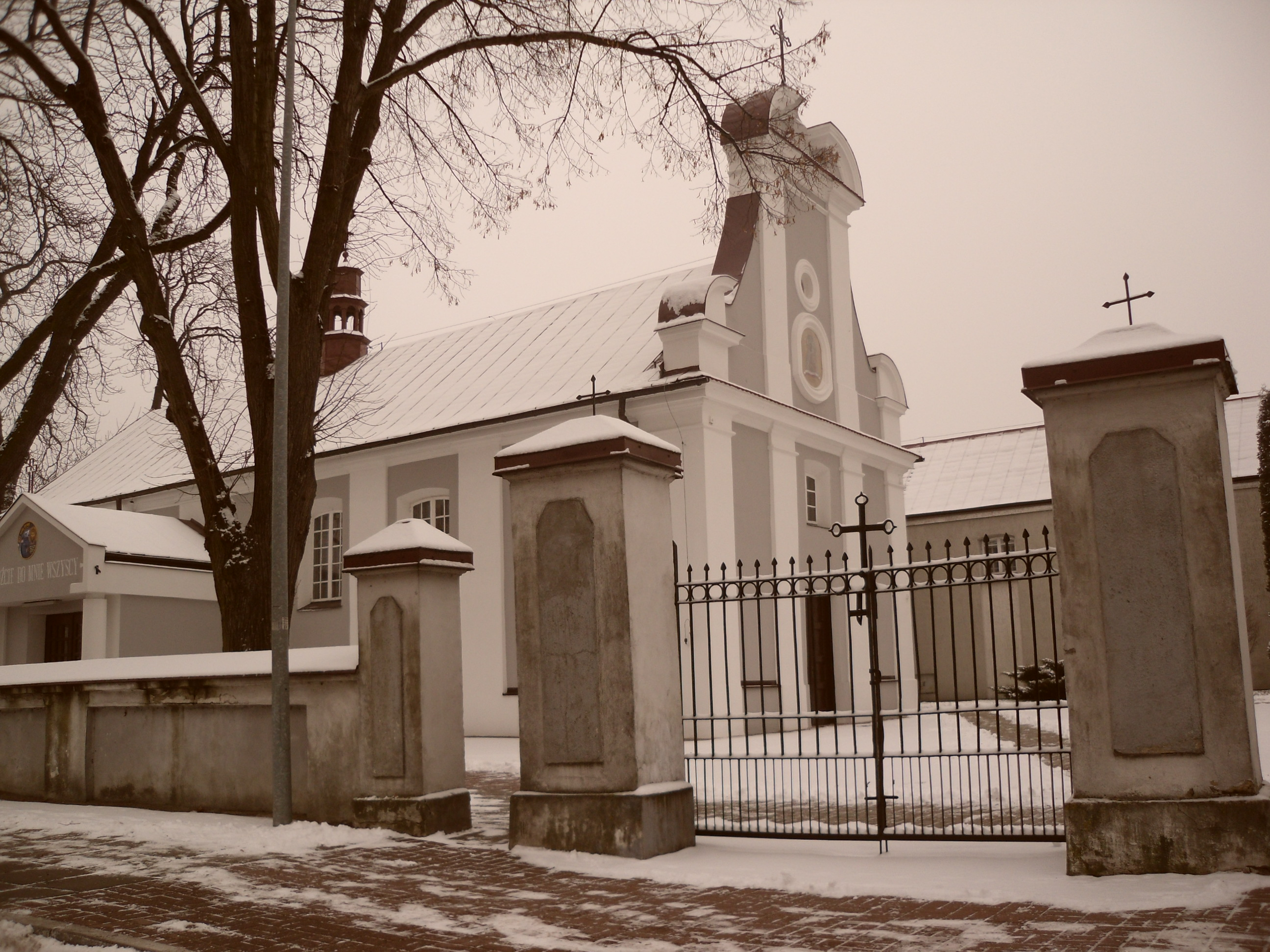 Sochaczew Trojanów - roman-catholic church